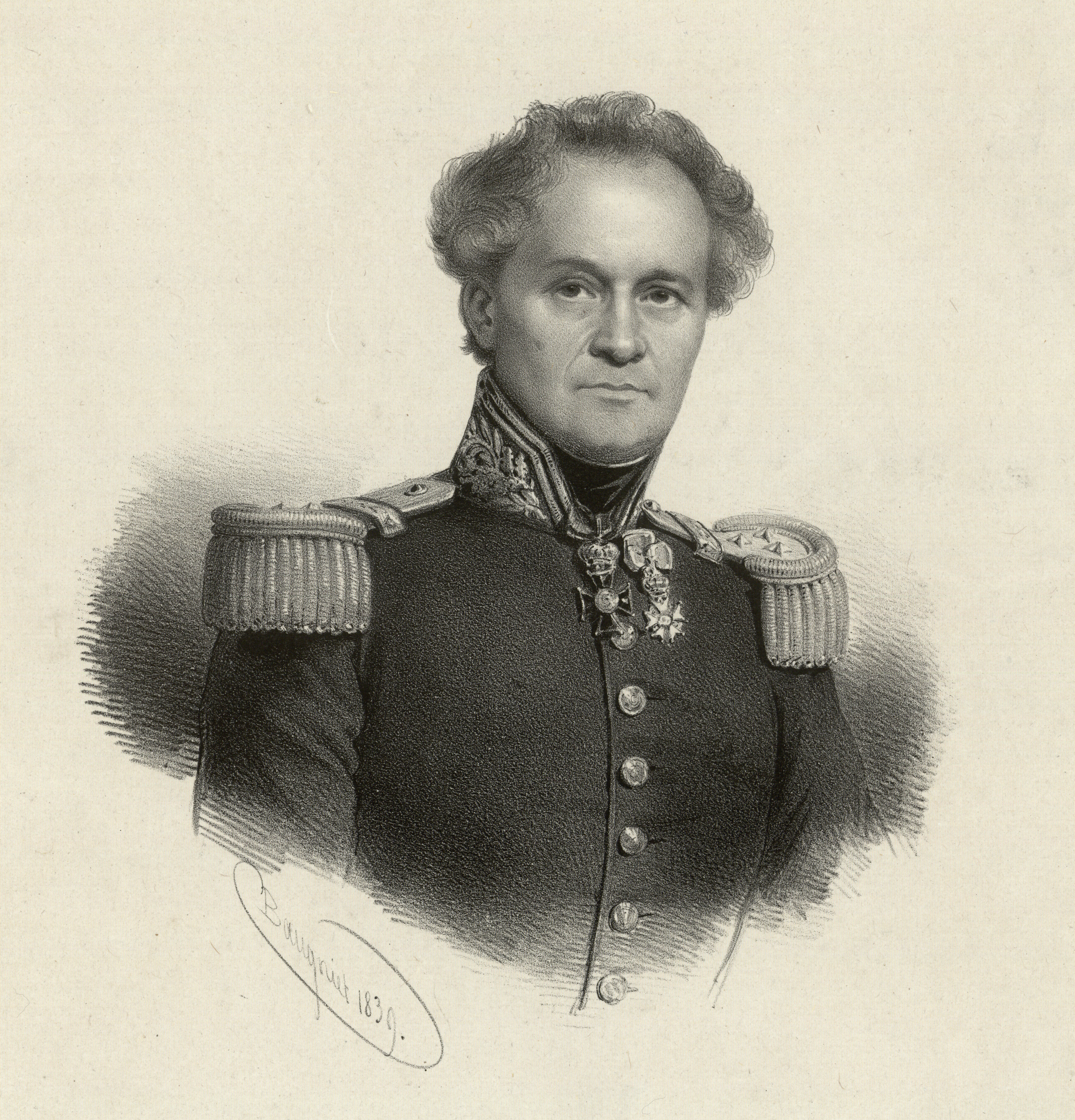 Jan Zygmunt Skrzynecki (1787–1860) was a Polish general, Commander-in-Chief of the November Uprising (1830–1831). A Belgian lithograph published in Bruxelles by Societé des Beaux-Arts.